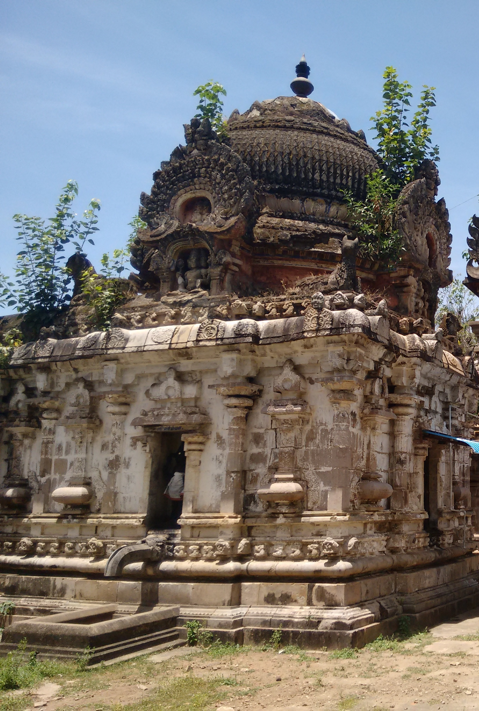 Karuppariyalur Kutramporuttanathar temple கருப்பறியலூர் குற்றம்பொறுத்தநாதர் கோயில்